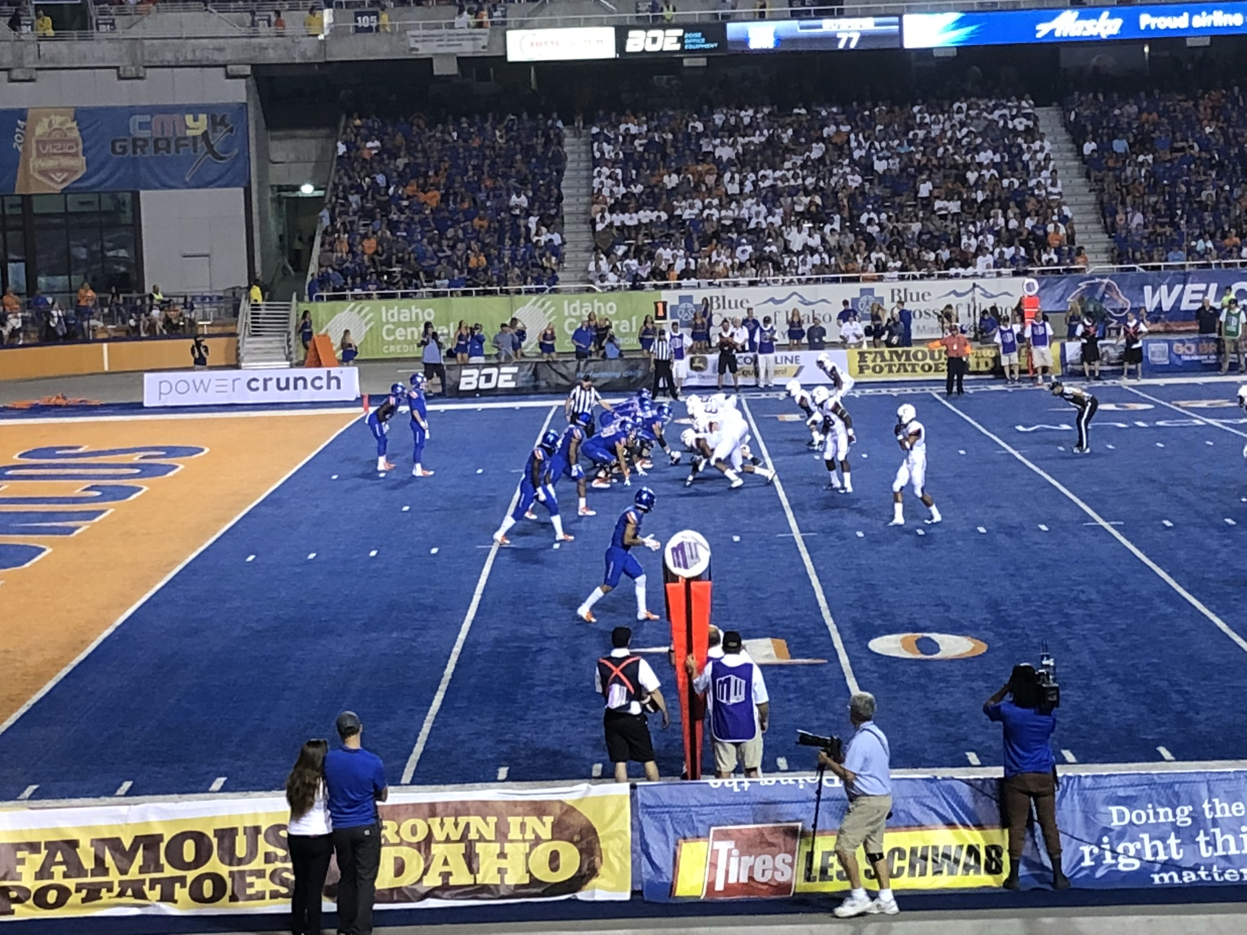 Boise State on offense against UConn in the second quarter of their game at Albertsons Stadium in Boise, Idaho on September 8, 2018.